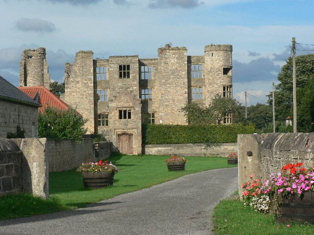 The Old Hall, Thorpe Salvin